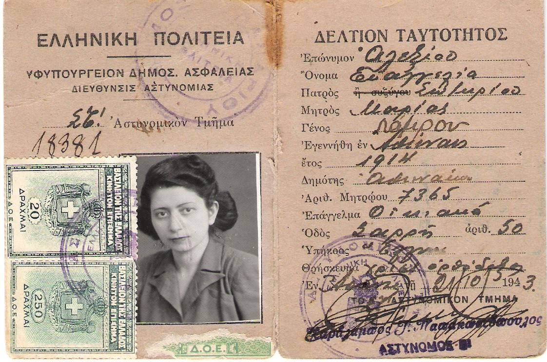 forged identity card with christian alias which provided to Eva Alhanati (alias in the ID as Evangelia Alexiou) , a greek jewish woman who lived in Athens during axis powers occupation.